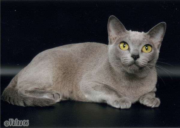 Valena Silk Curious Miracle. Burmese blue female cat of hybrid type.